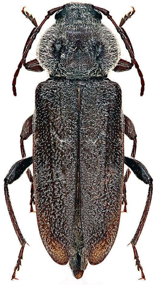 The European house borer, Hylotrupes bajulus. This longhorn beetle is a serious pest in construction timber.